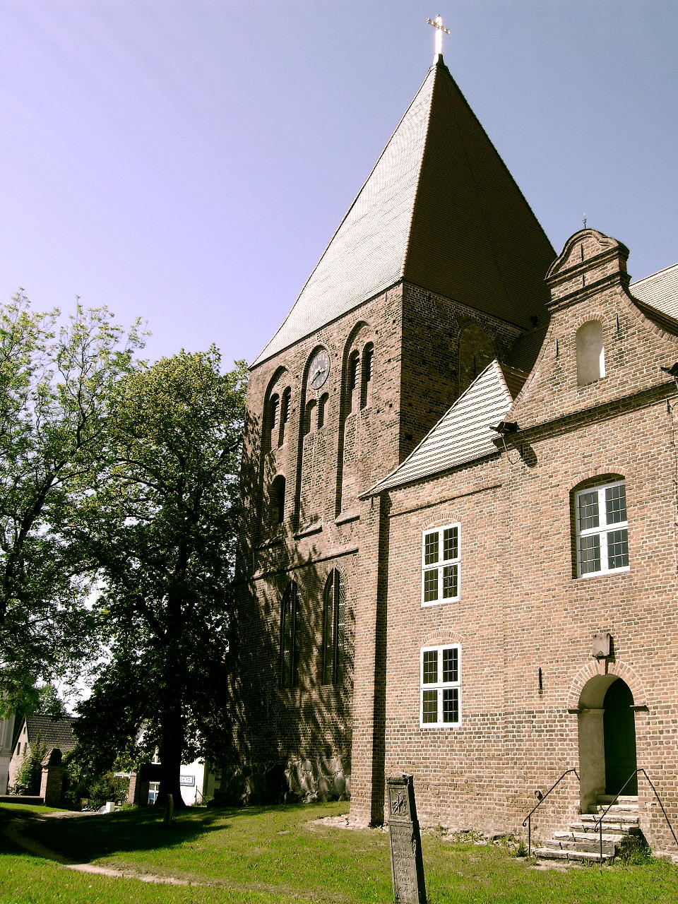 The tower of church of Sagard.